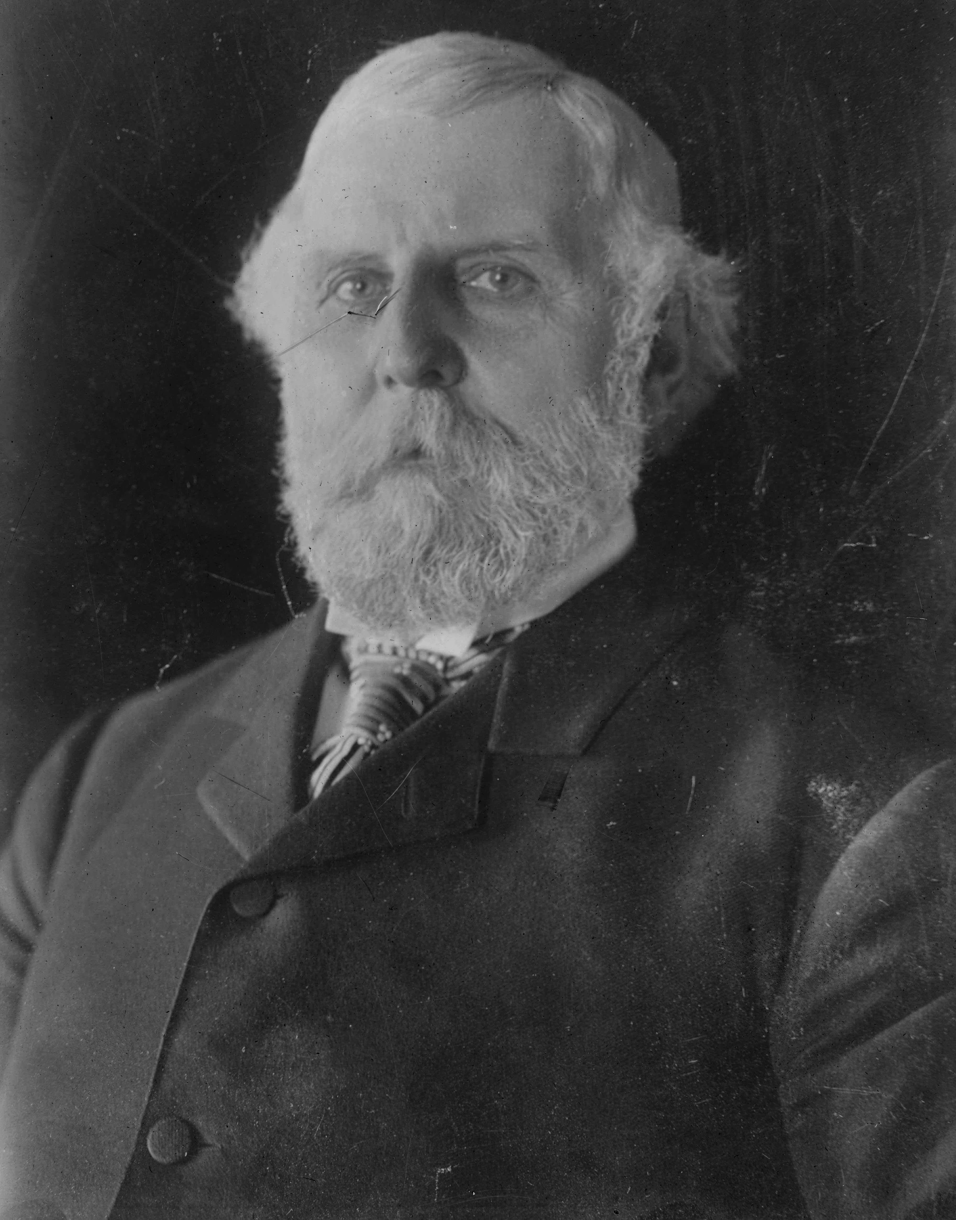 Lyman J. Gage, formal photo portrait. Secretary of the Treasury of the United States.